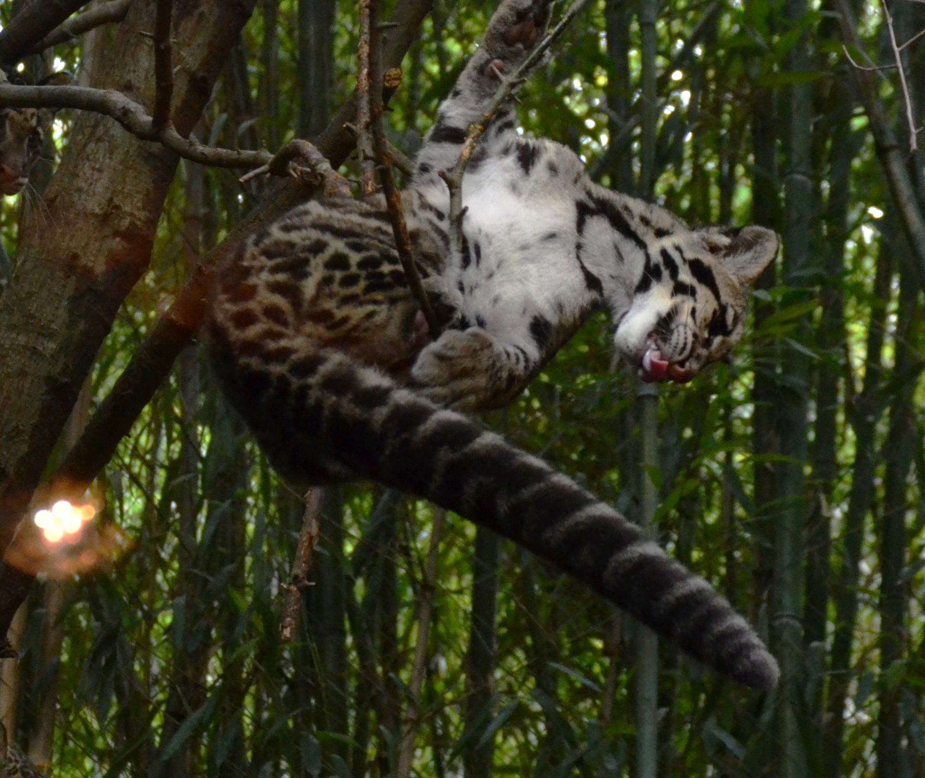 Three clouded leopards (Neofelis nebulosa) in Nashville Zoo.